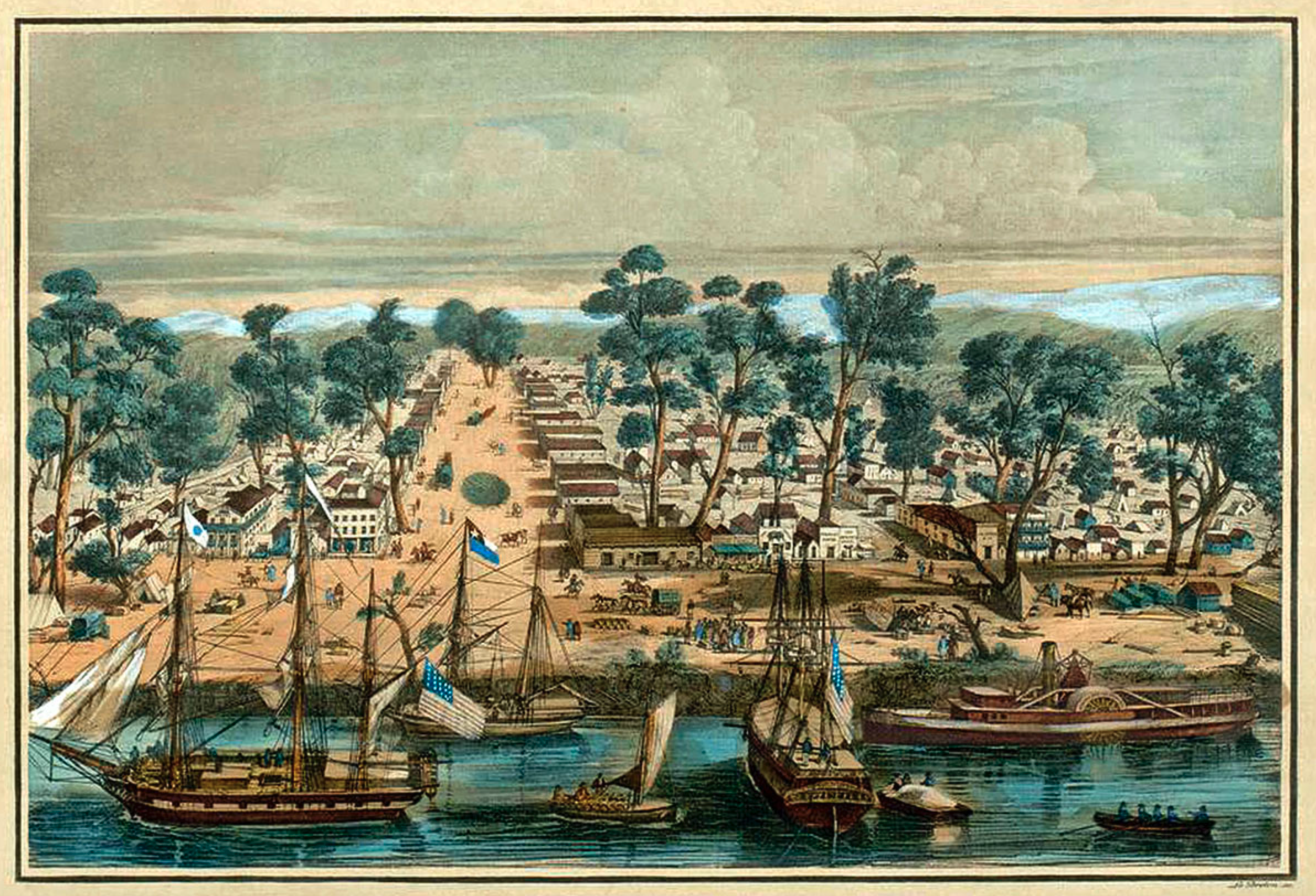 Sacramento River waterfront, looking down J Street, likely with the steamer Senator in the lower right. The original is in the Bancroft Library of the University of California Berkeley